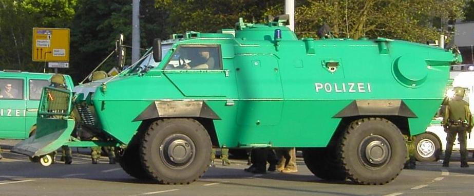 German police tank